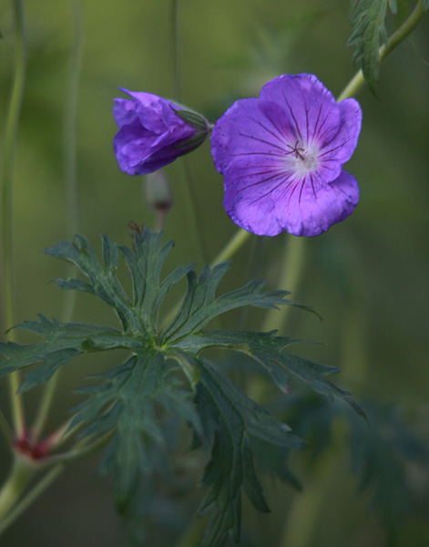 Geranium 'Nimbus'